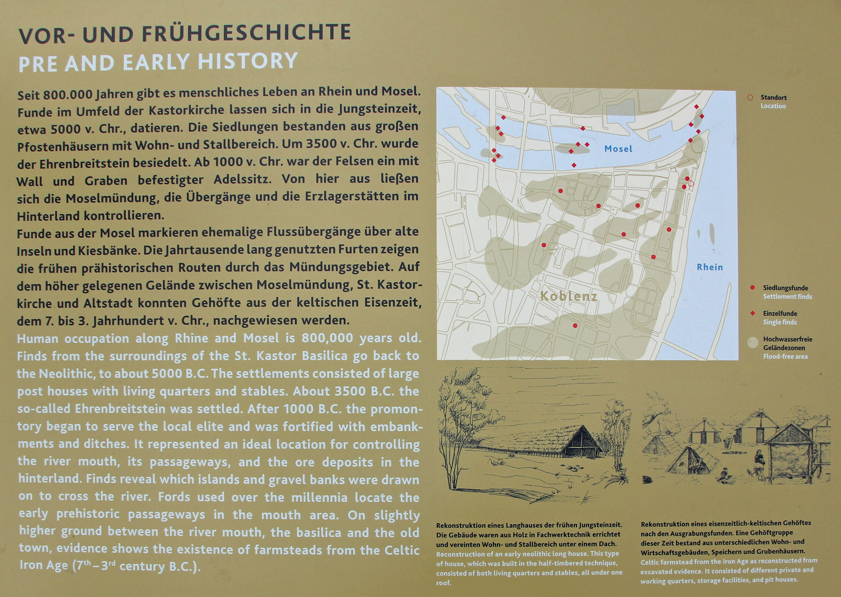 Federal Horticultural Show 2011 in Koblenz - Blumenhof at Deutsches Eck: Information board of pre and early history